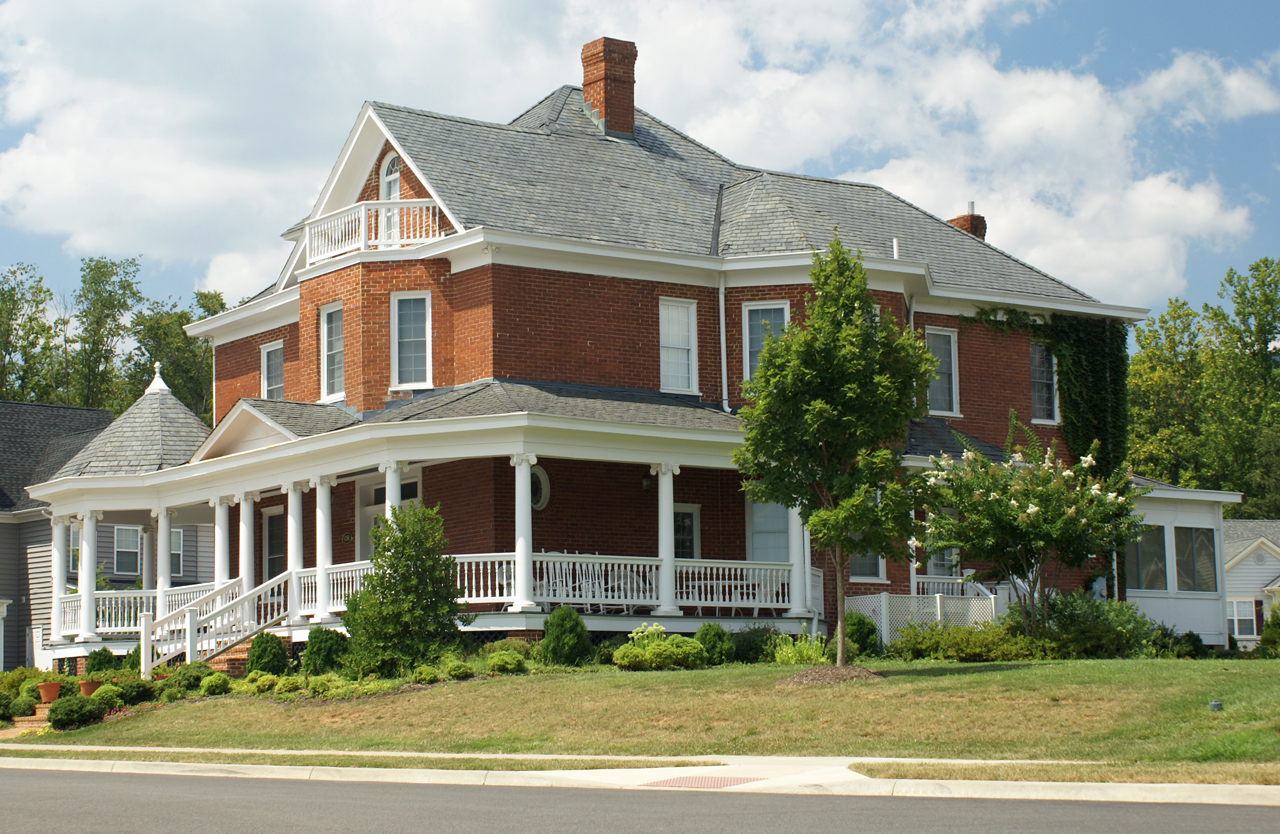 Bain House at Bargamin Park off Jarman's Gap Road near Crozet, VA.